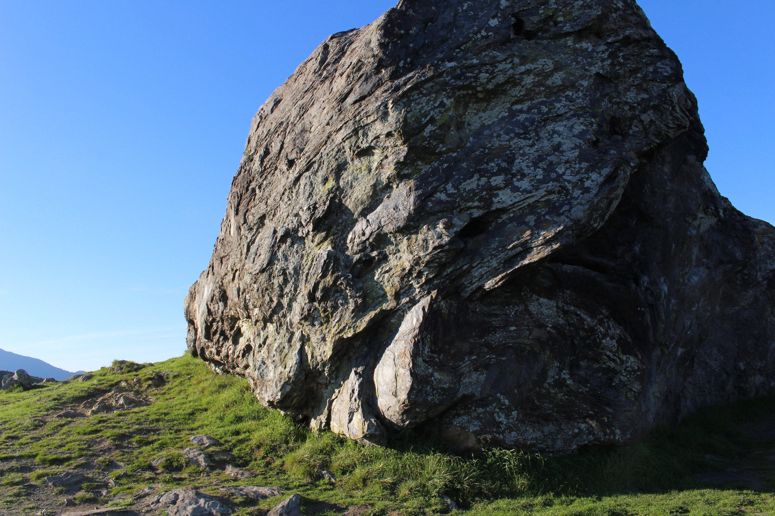 This blueschist (glaucophane garnet schist) block displays folded foliation, lineation, and an altered rind from metasomatic interaction with the encompassing serpentinite melange matrix.